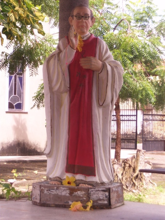 Depicted person: Waldir Lopes de Castro, invalid ID, invalid ID, invalid ID, invalid ID, invalid ID, invalid ID, invalid ID, invalid ID and invalid ID